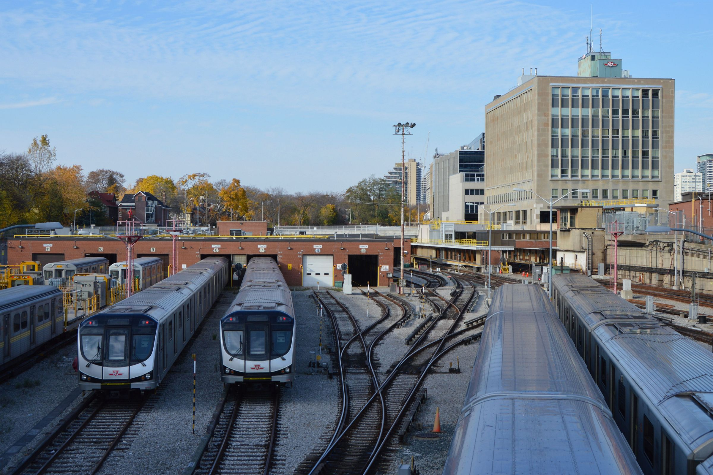 Davisville Yard with Davisville subway station and the McBrien Building on the right